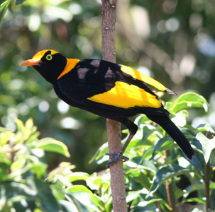 Male Regent bowerbird (Sericulus chrysocephalus) at Lamington National Park.